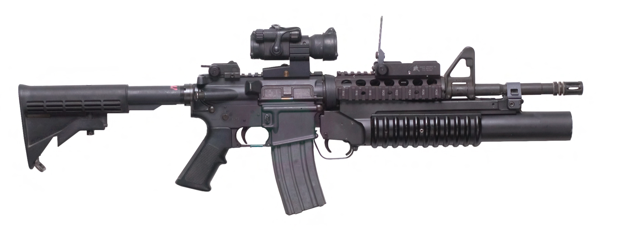 M4 Carbine with M203 Grenade Launcher Primary function: Anti-personnel, light materiel targets and less-than-lethal. Length: Buttstock closed 29.75 in.; buttstock opened 33.0 in.; M203 — 15.3 in. with 12 in. barrel. Weight: 7.5 lbs. with 30-round magazine; M203 — 3 lbs. Caliber: 5.56 mm NATO.; M203 — 40 mm. Maximum effective range: Individual/ point target: 500 meters, area target: 600 meters; M203 — individual/point target: 150 meters; area target: 350 meters (50 percent casualty rate of exposed person- nel within a 5-meter radius). Cyclic rate of fire: 700-970 rounds per minute; M203 — 5-7 rounds per minute.